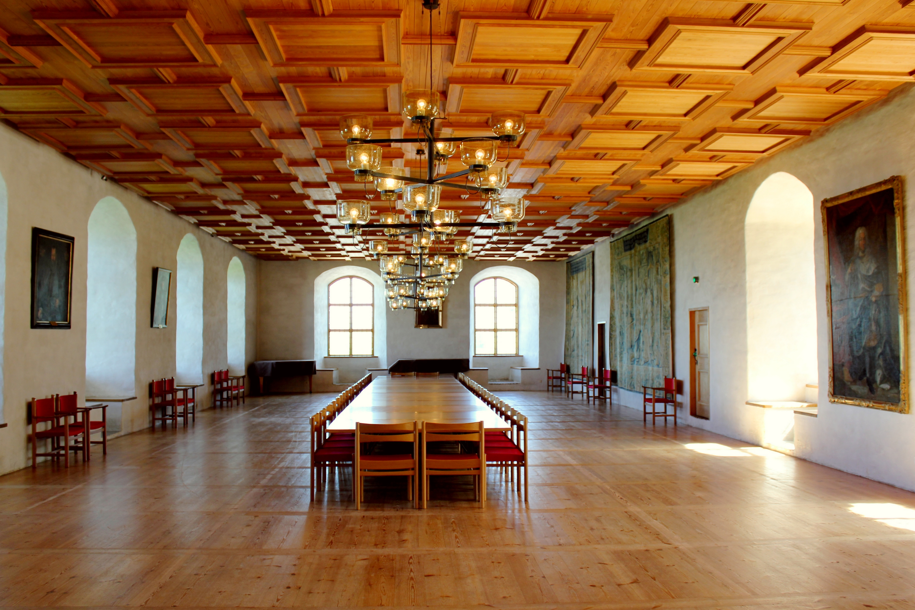 A hall in Turku Castle